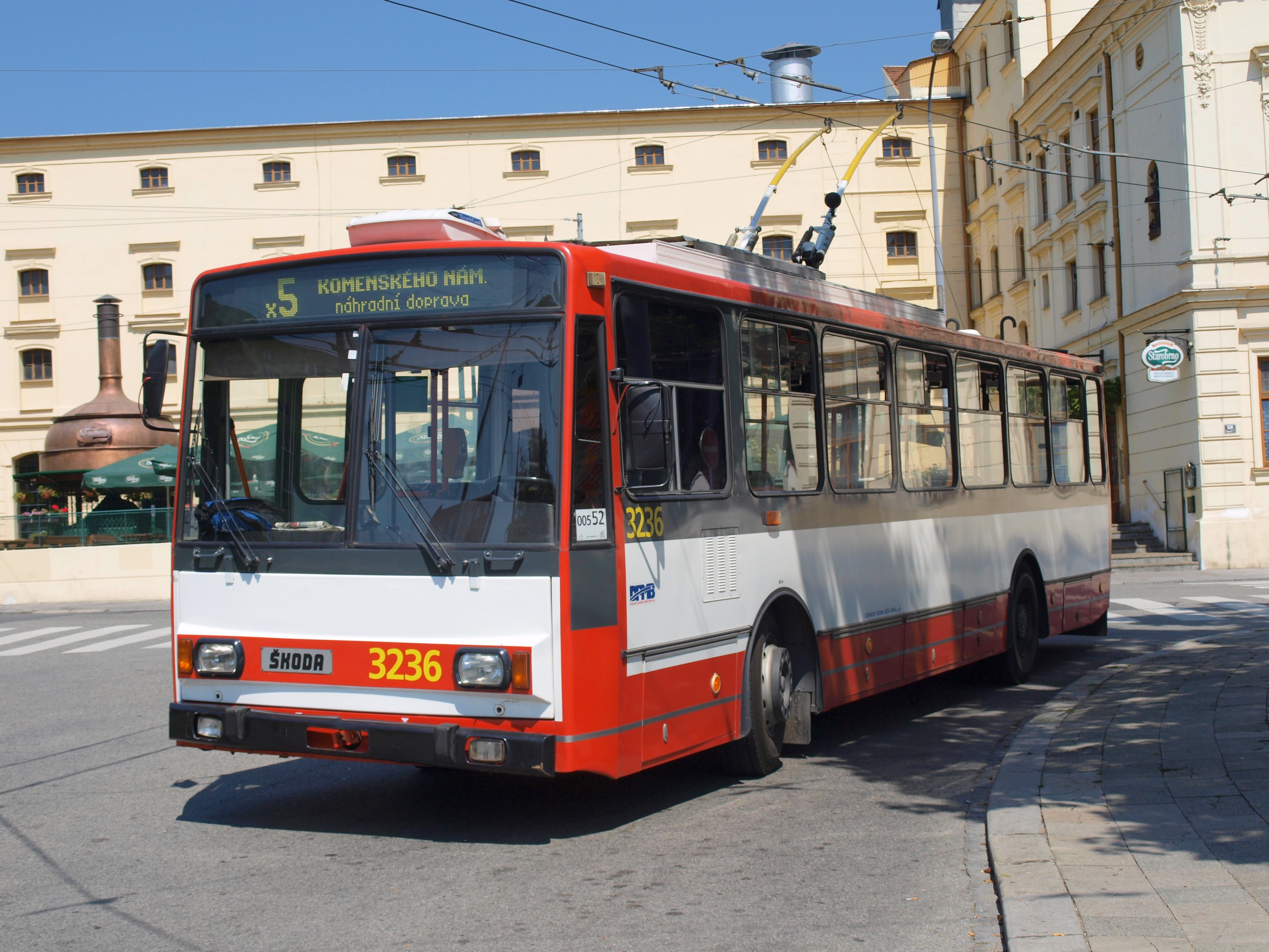 Troleybus Škoda 14Tr as substitute line, Mendlovo square, Brno